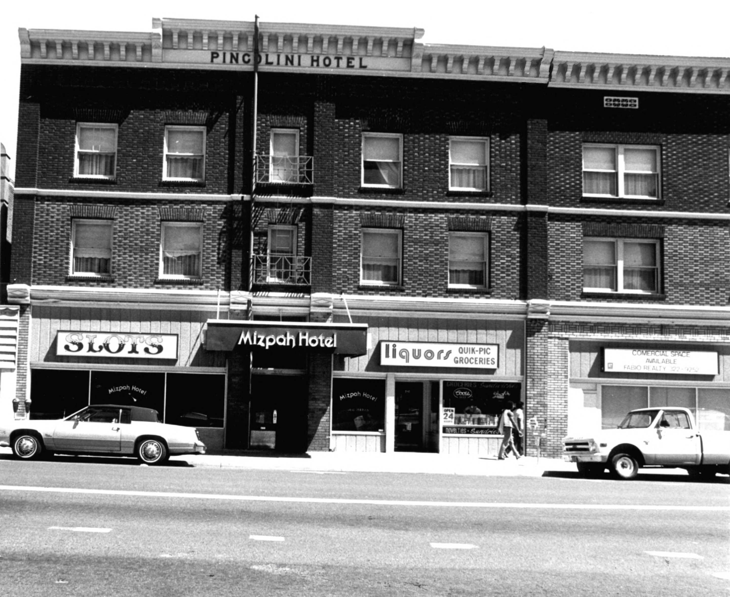 The historic Pincolini Hotel (Mizpah Hotel), formerly located at 214 Lake Street in Reno, Nevada, United States, is listed on the U.S. National Register of Historic Places. The building was destroyed by fire in 2006.Caption in source document: Exterior view looking east